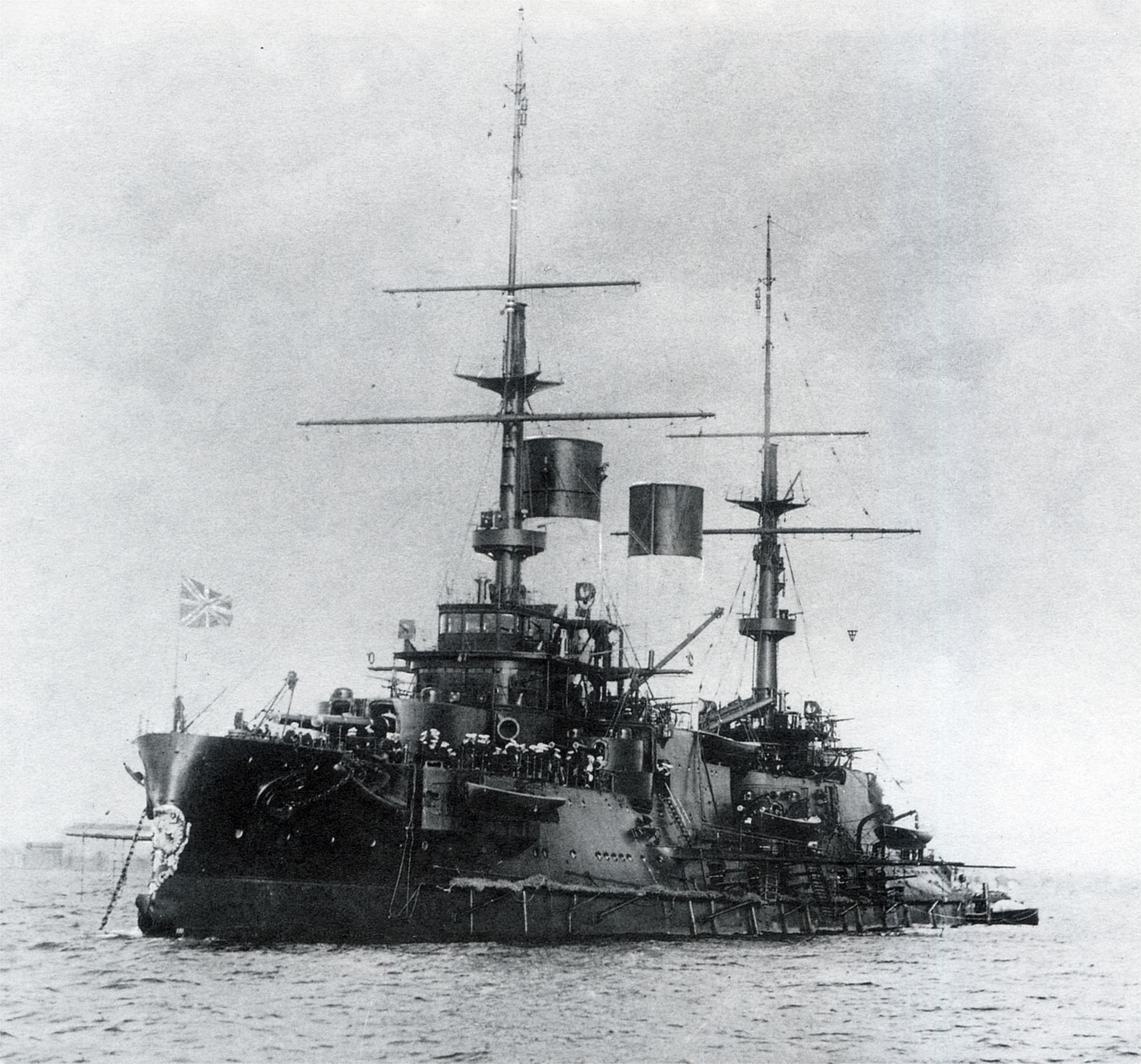 Imeprial Russian battleship Imperator Aleksandr III in Kronshtadt, Augst 1904.